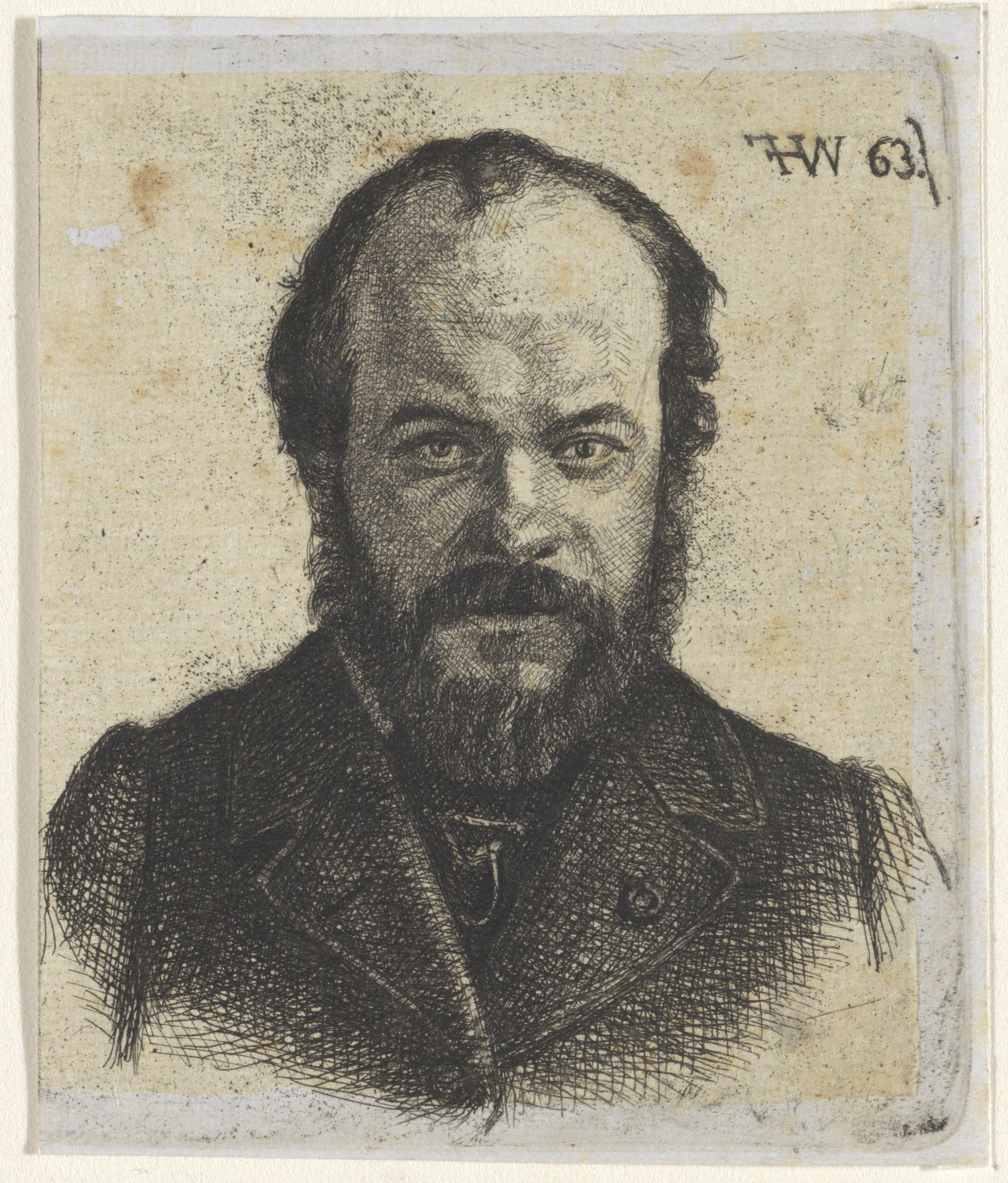 Portrait of Jan Weissenbruch by Frederik Hendrik Weissenbruch